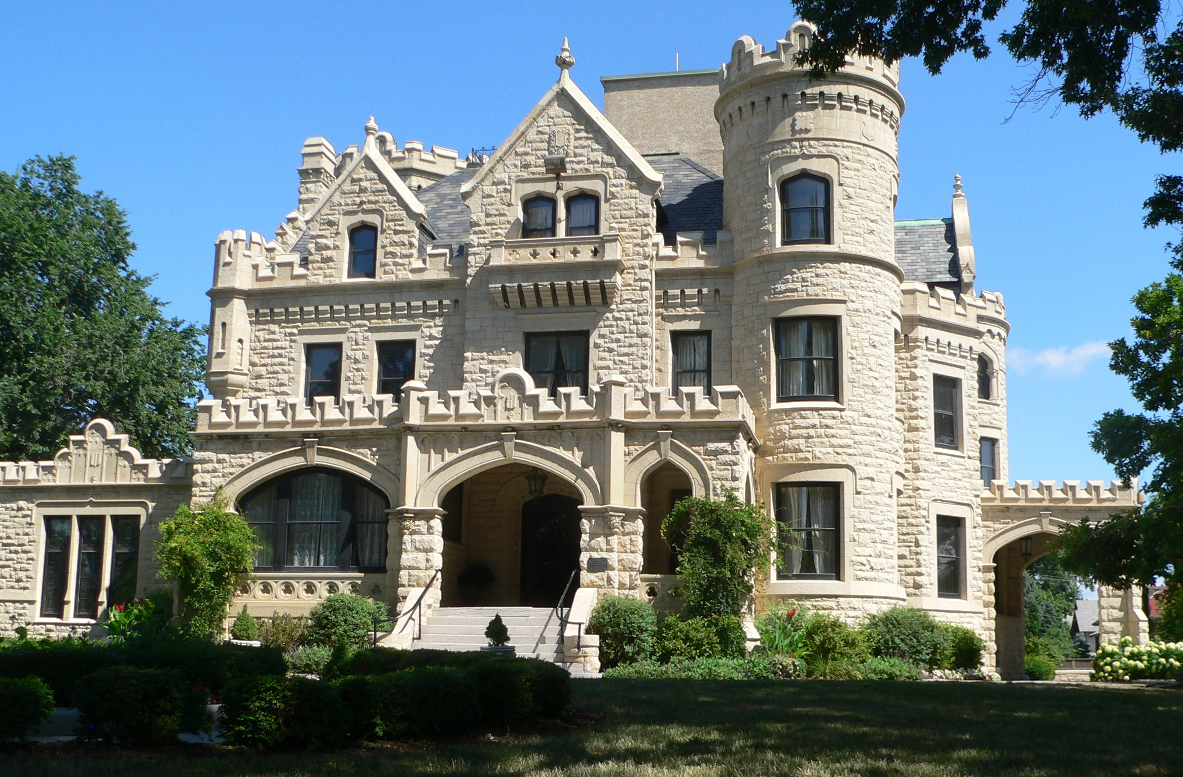 Joslyn Castle, located at 3902 Davenport Street in Omaha, Nebraska; seen from the south.